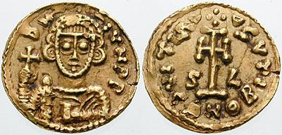 Lombards, Beneventum (nowdays Benevento. Liutprand of Benevento, with his mother Scauniperga, as Regent. 751-755 AD. AV Tremissis (1.28 gm). Crowned facing bust, holding globus cruciger and akakia Cross potent; S L. MEC -; BMC Vandals pg. 164, 1. Good VF, thin reverse die breaks. Very Rare.